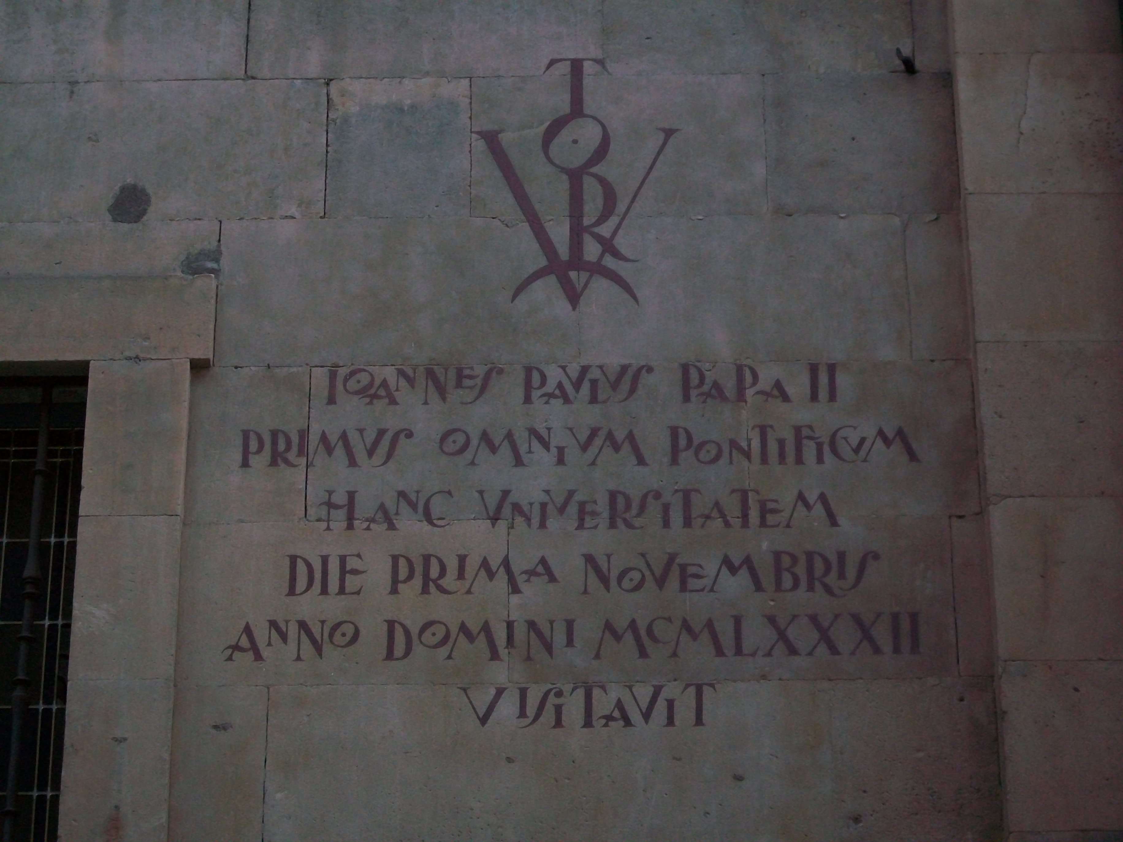 Victor remembering the visit of Pope John Paul II in Salamanca, 1st of November 1982